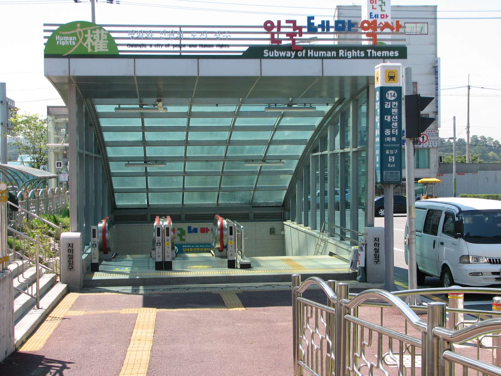 Kim Dae-jung Convention Center Station is a station of the Gwangju Metropolitan Rapid Transit Corporation, Seo-gu Gwangju in South Korea